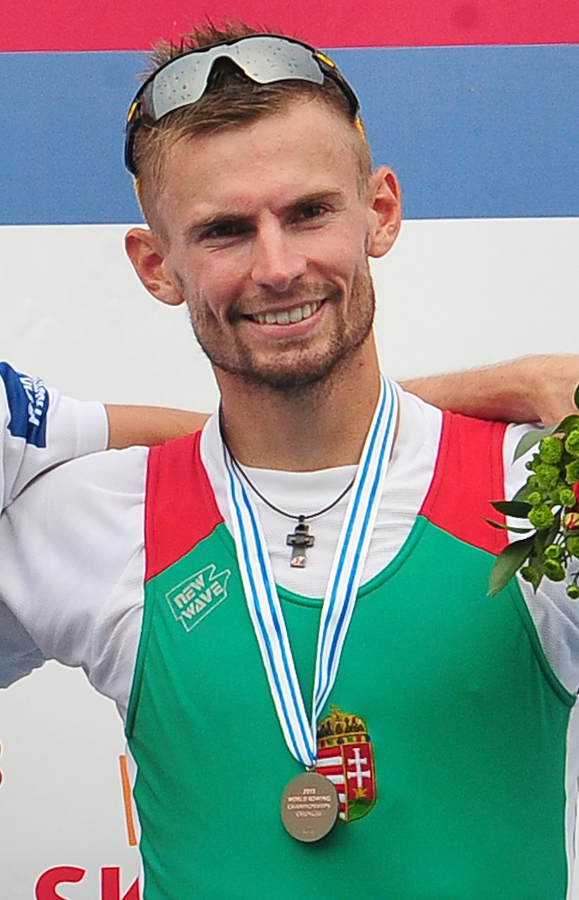 2013 Chungju World Rowing Championships. Péter Galambos